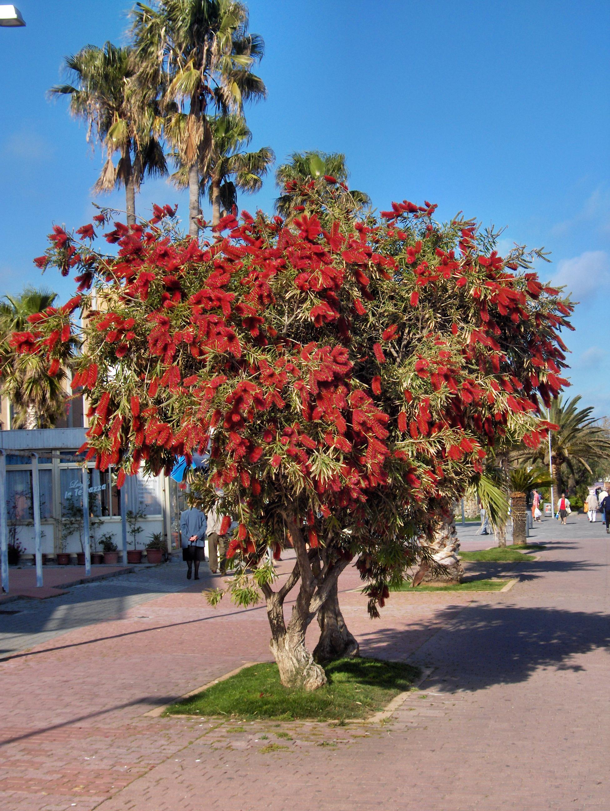 Waterfront "Lungomare delle Nazioni", San Bartolomeo al Mare, Liguria, Italy.